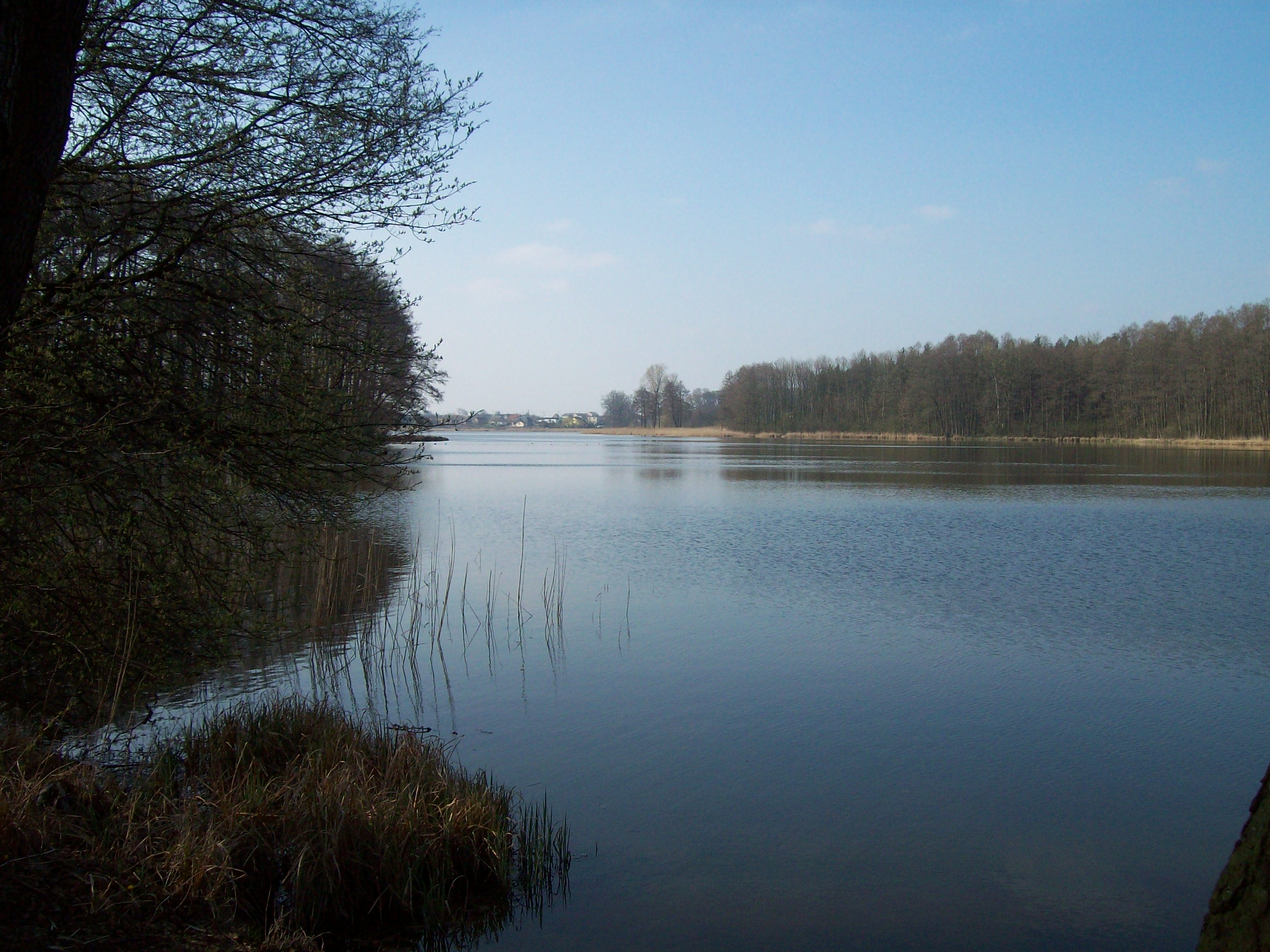 Jezioro Świesz - sight from causeway from village Trojaczek side